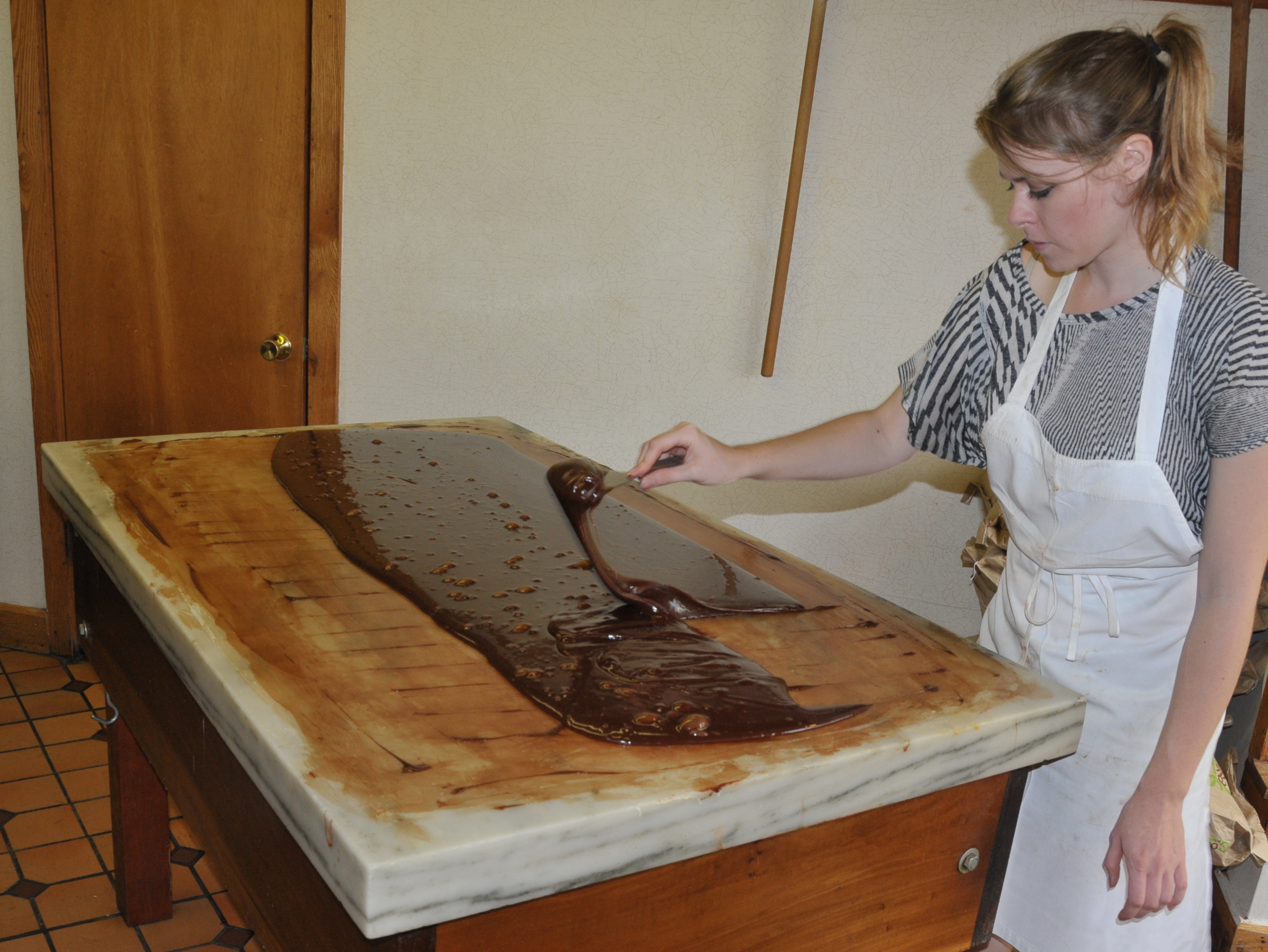 drove to Nashville on a good day. here at the coffee shop